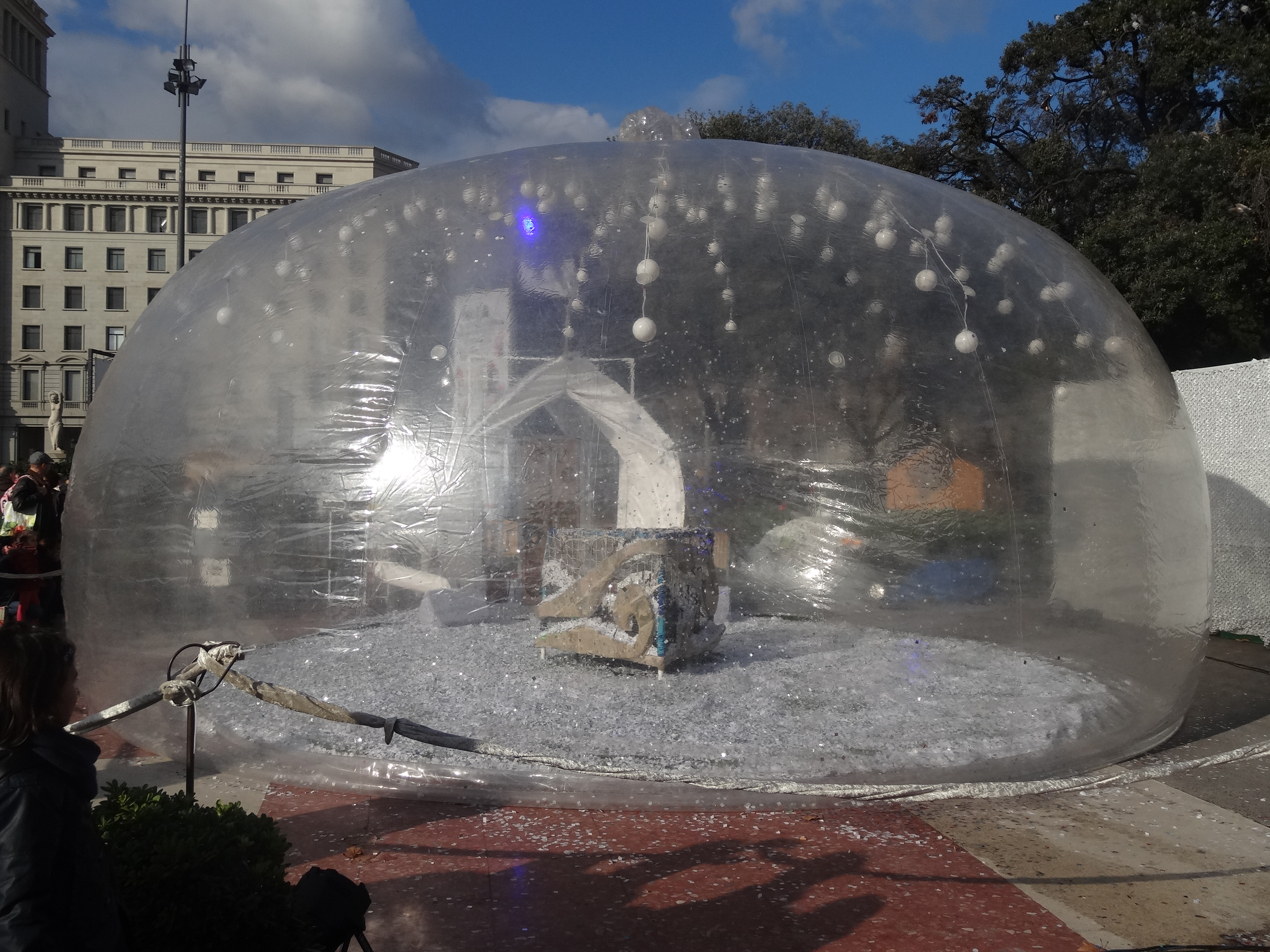 Christmas 2016 activities in Plaça Catalunya , Barcelona. Giant snow globe.